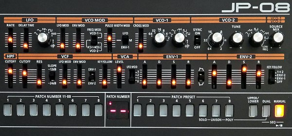 This is a picture of a Roland Boutique JP-08 synthesizer. I took a picture of my new JP-08 when I received it on October 15, 2015.